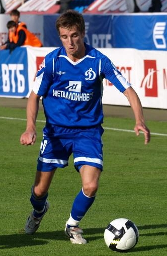 Dmitry Kombarov in action for FC Dynamo Moscow